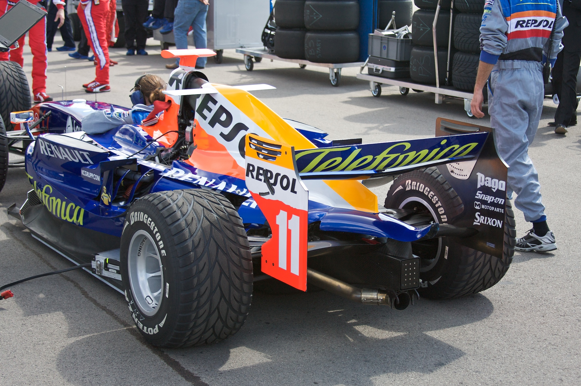 Javier Villa's car at the Turkish round of the 2008 GP2 Series season.